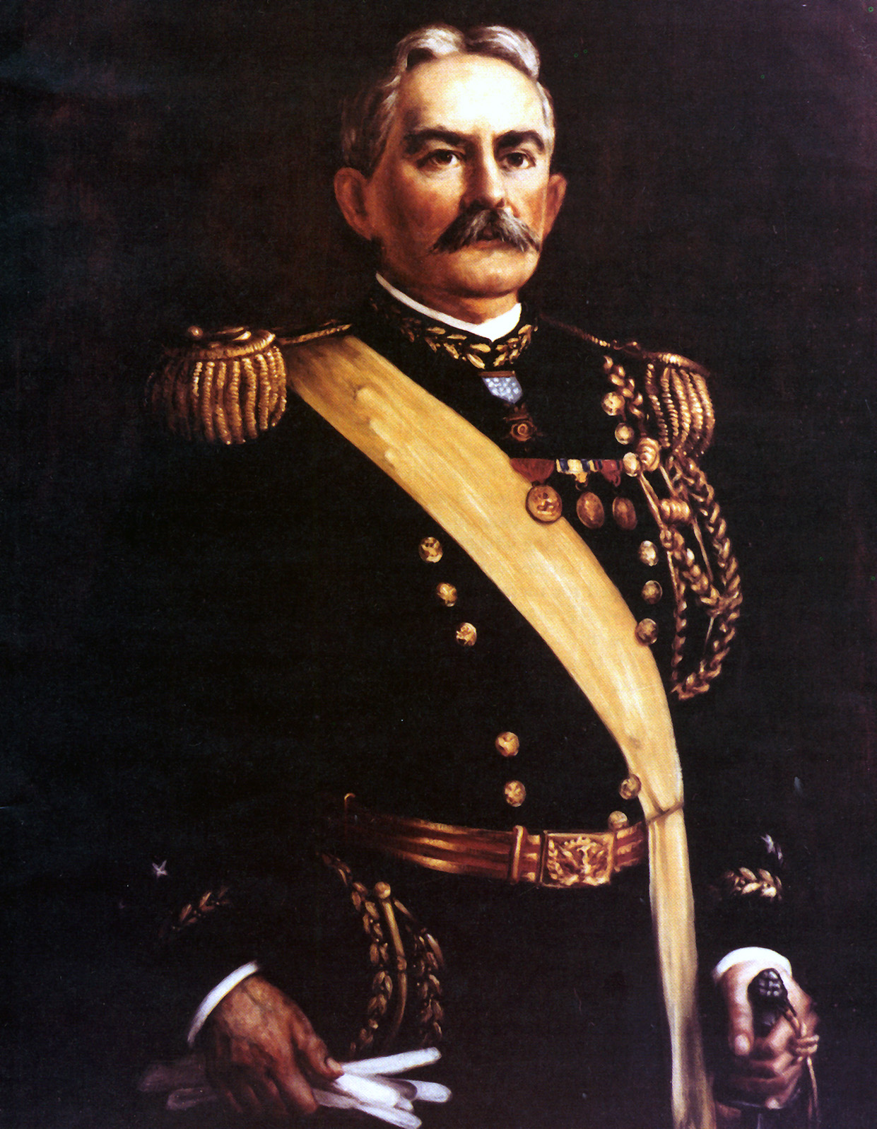 J. Franklin Bell, 4th Chief of Staff of the Army